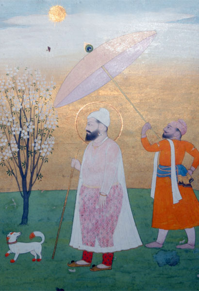 Guru Har Rai, the Seventh Guru Pahari (from the family workshop of Nainsukh of Guler), Government Museum and Art Gallery, Chandigarh